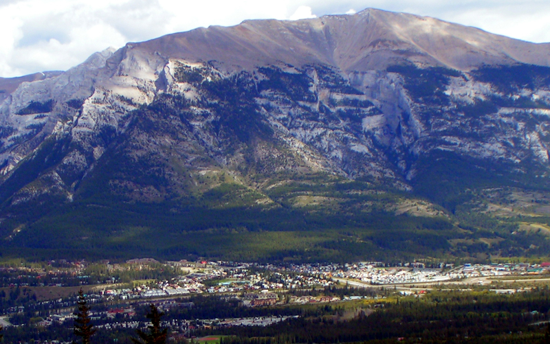 Overview of Canmore, Albera, Canada